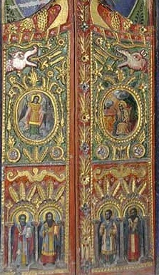 Saint Demetrius Church in Pancharevo Royal Doors